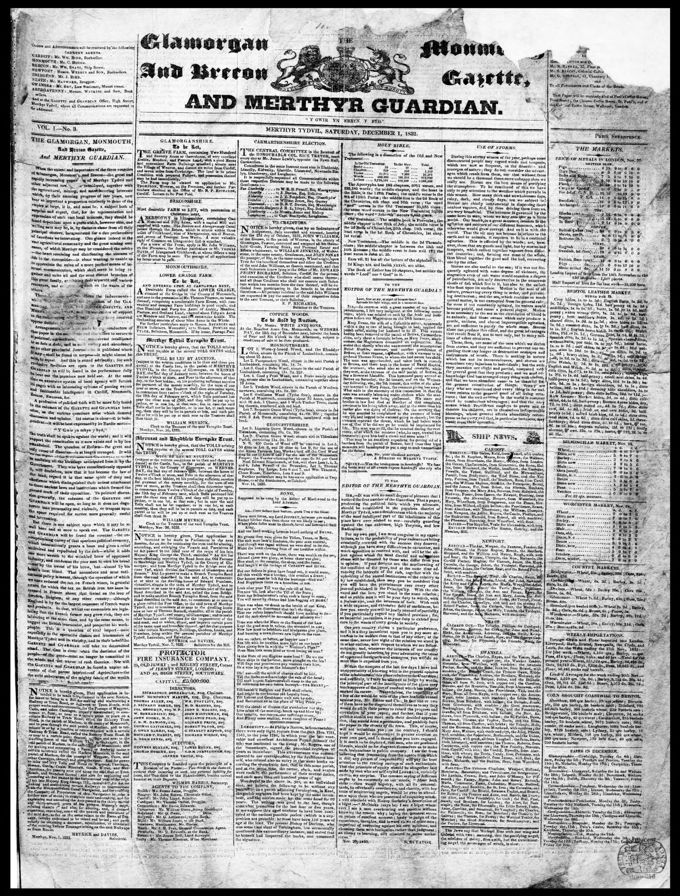 Front page of the earliest surviving copy of the Welsh newspaper Glamorgan, Monmouth and Brecon Gazette and Merthyr Guardian